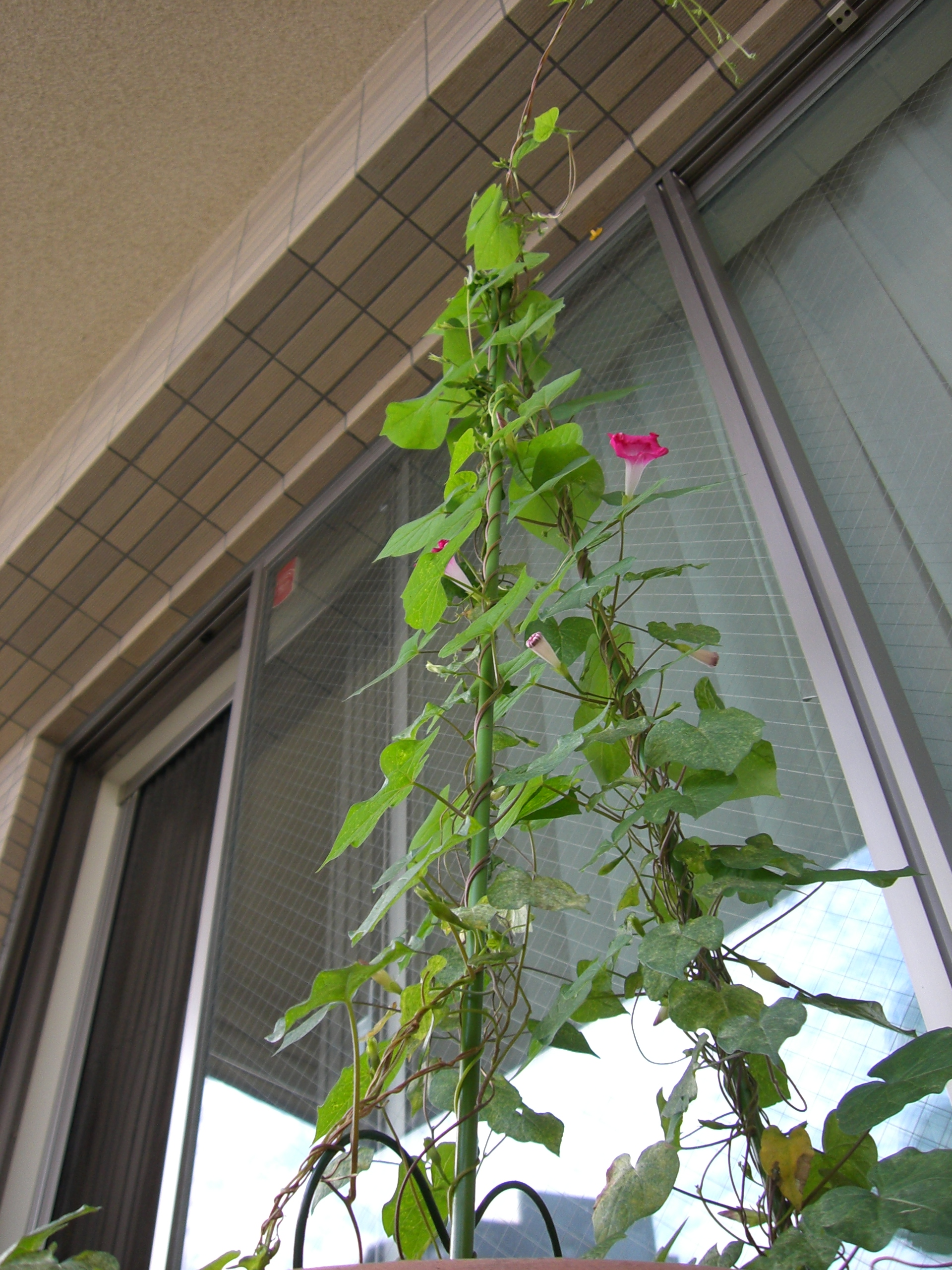 whole of morning-glory in our garden.